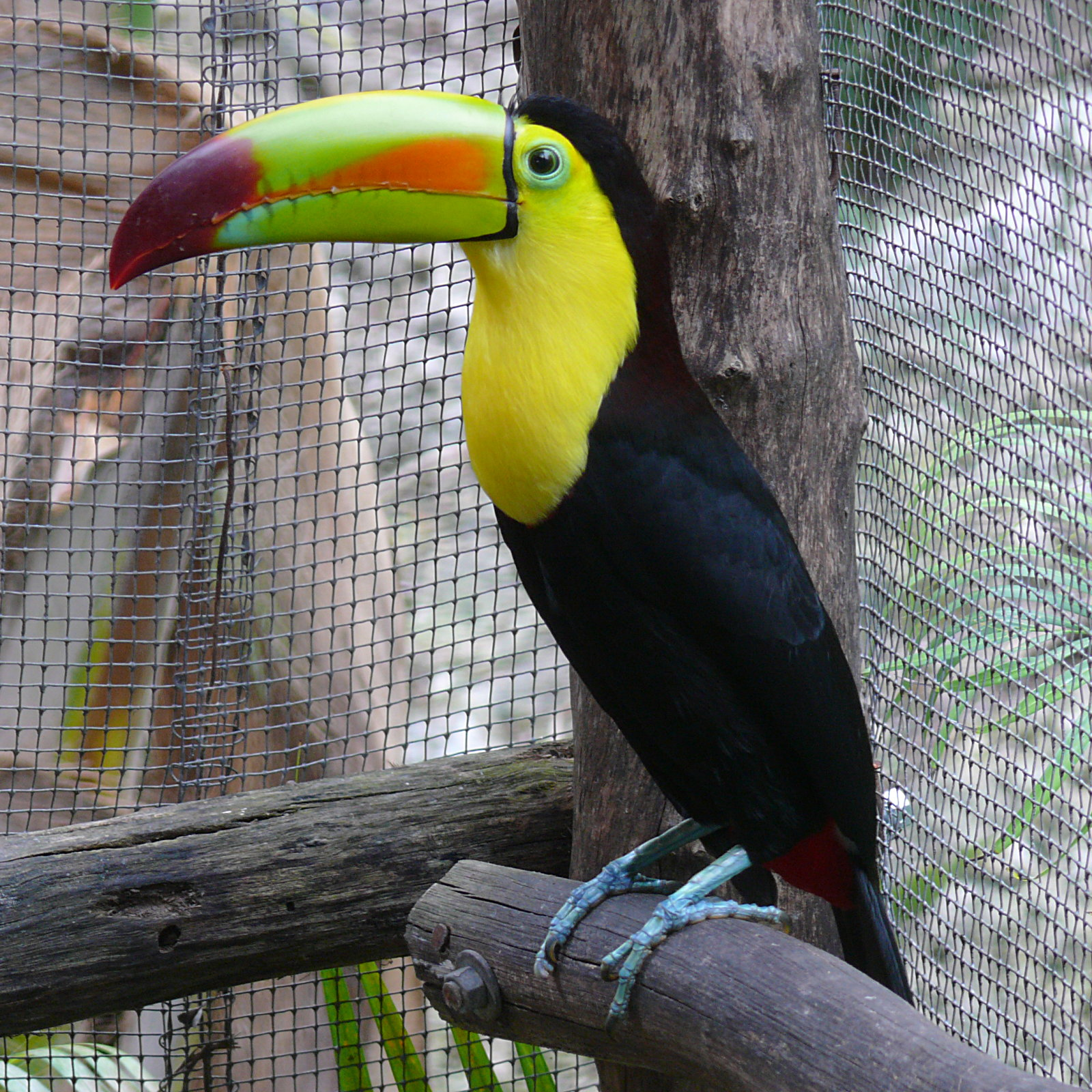 A captive Keel-billed Toucan at Quintana_Roo, Mexico.